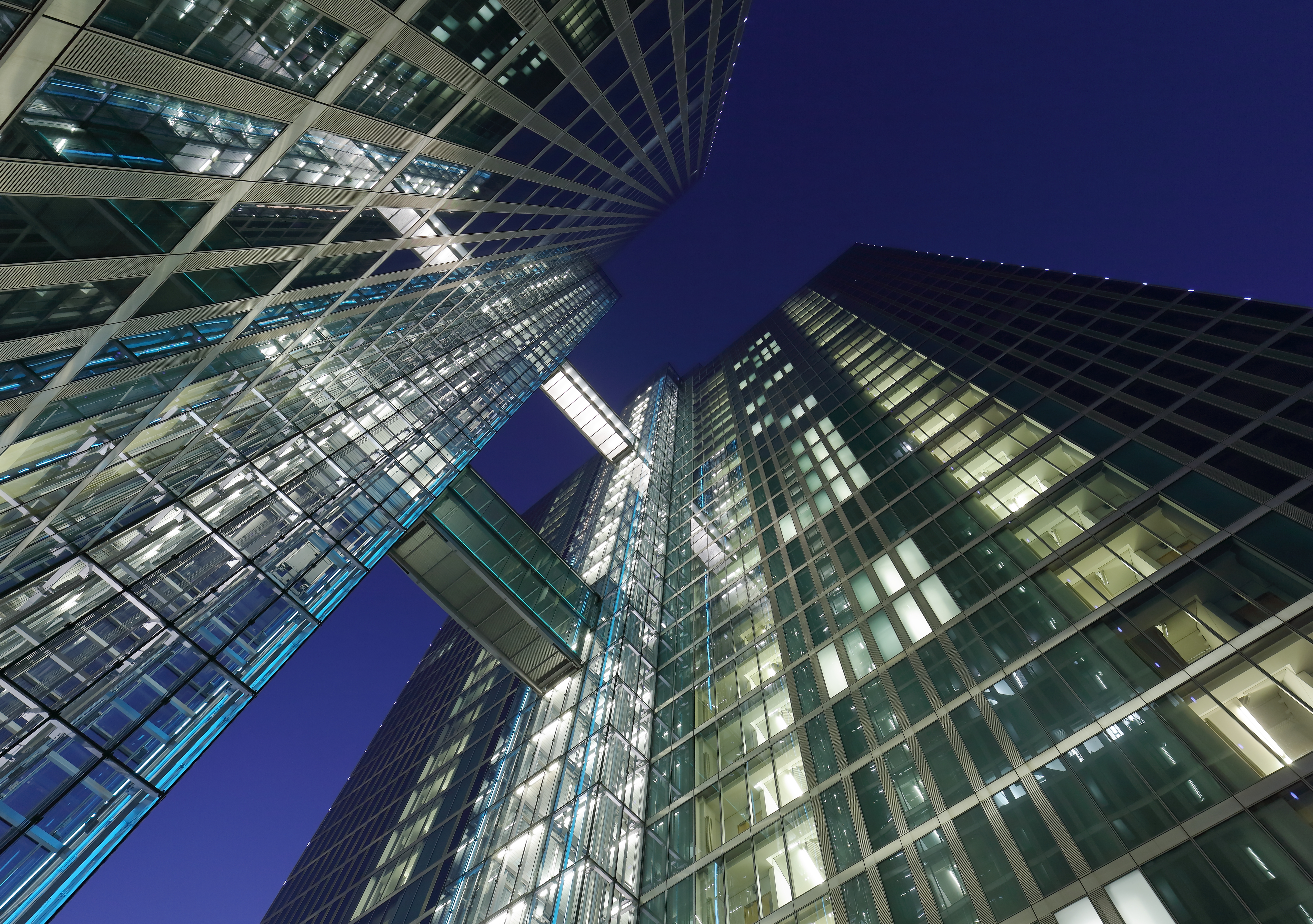 Highlight Towers is a twin tower office skyscraper complex planned by architects Murphy/Jahn in Munich, Germany. It was completed in 2004.